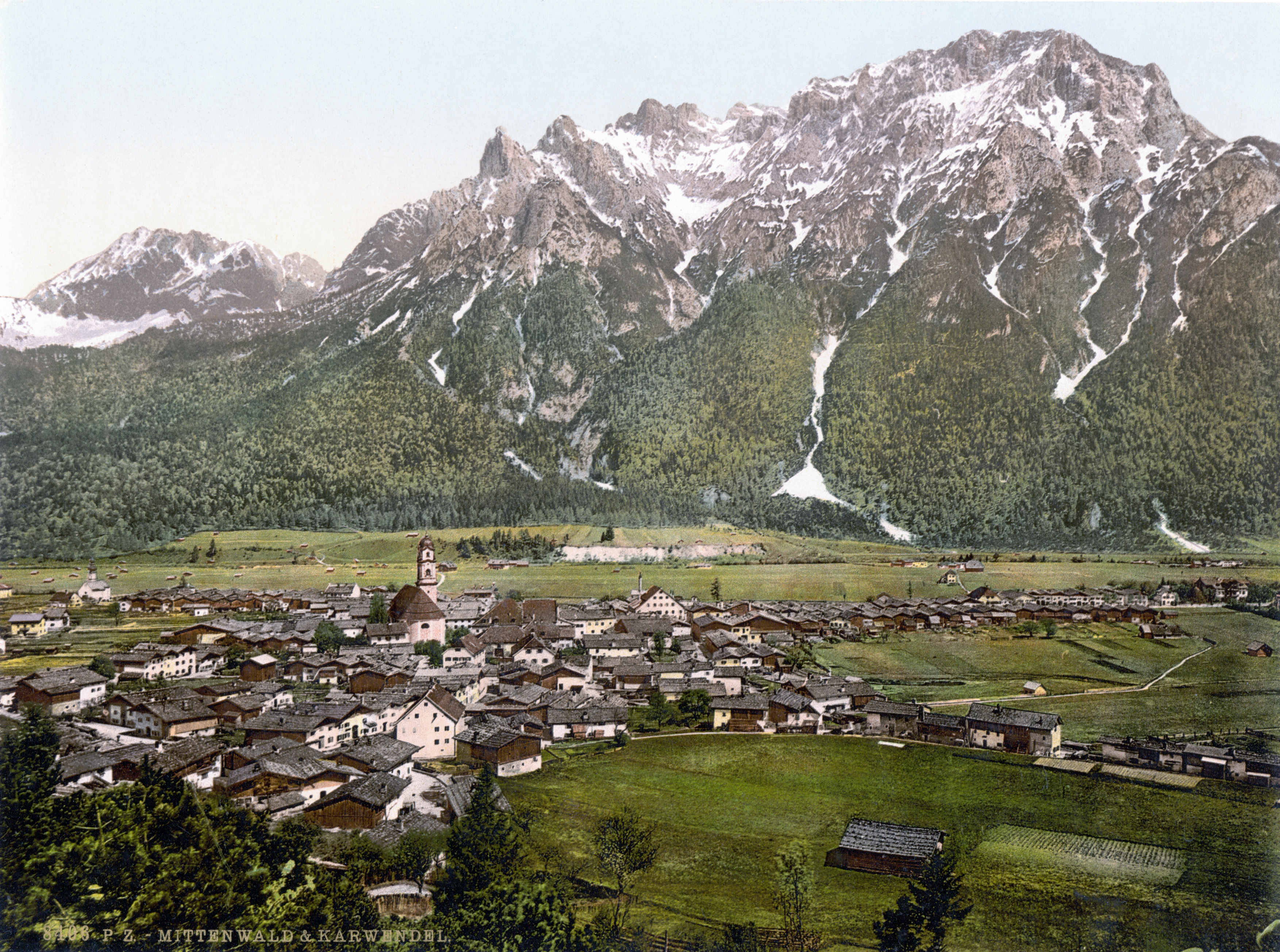 Mittenwald and Karwendel around 1900